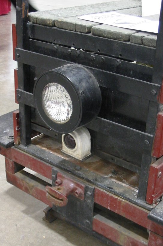 The coupler pocket for a link and pin coupler Photo by Sean Lamb (User:Slambo), February 19 2006